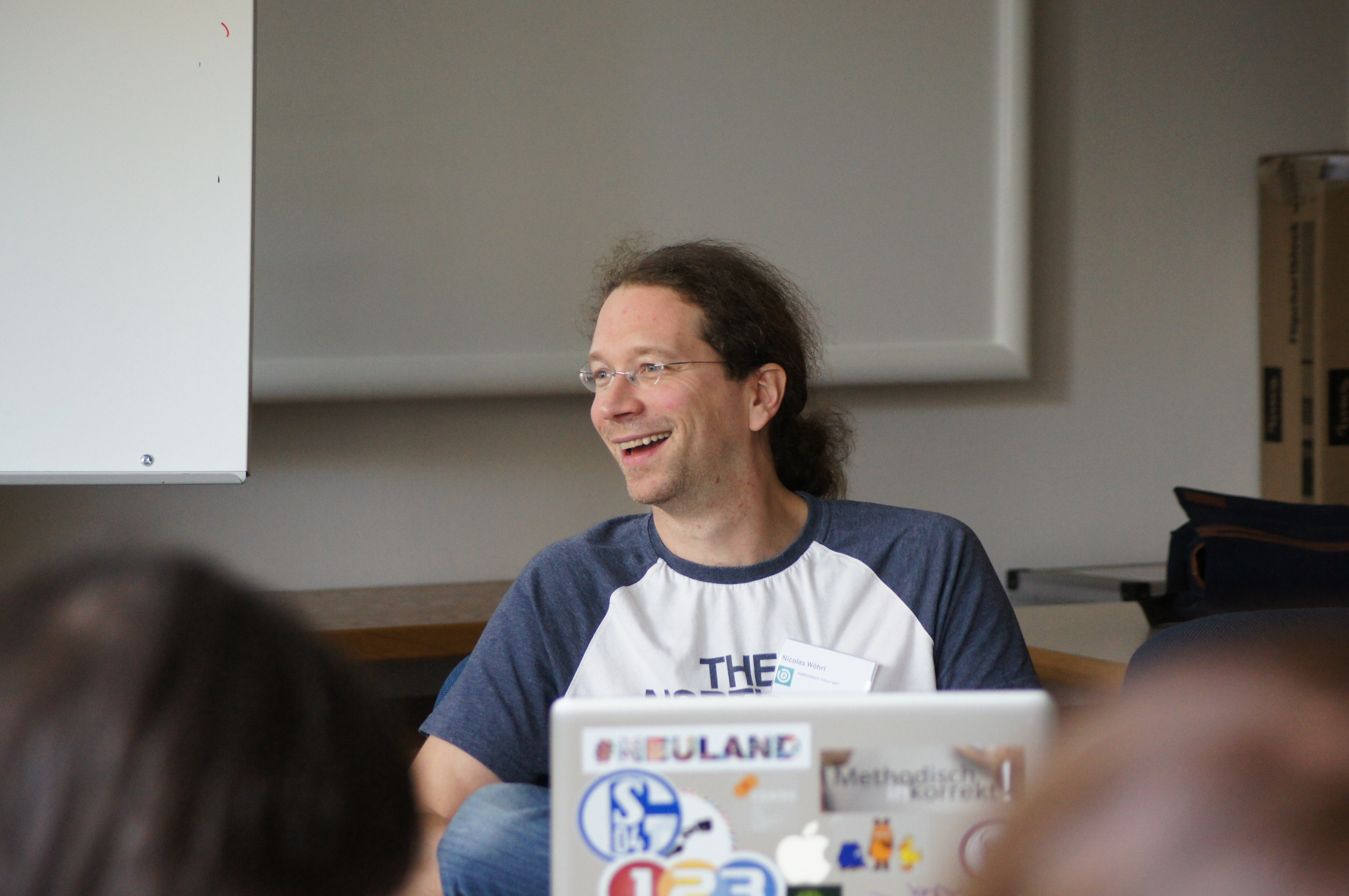 Participant of the podcasting conference Subscribe8 2016 in Munich, Germany